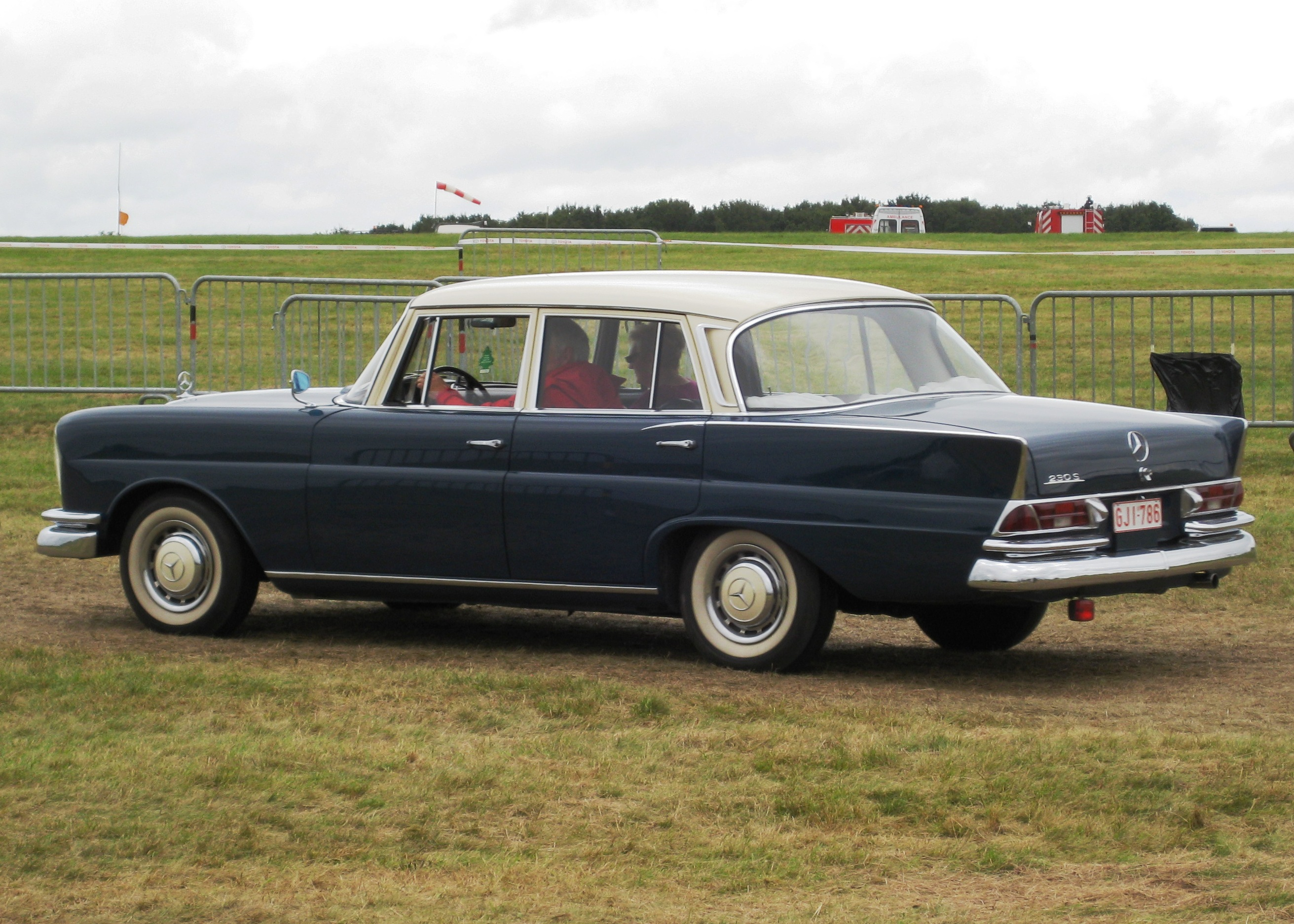 Mercedes-Benz 230S (W111) displaying the Heckflossen (little tail fins) which gained for the model informally the name "Heckflossen Mercedes".